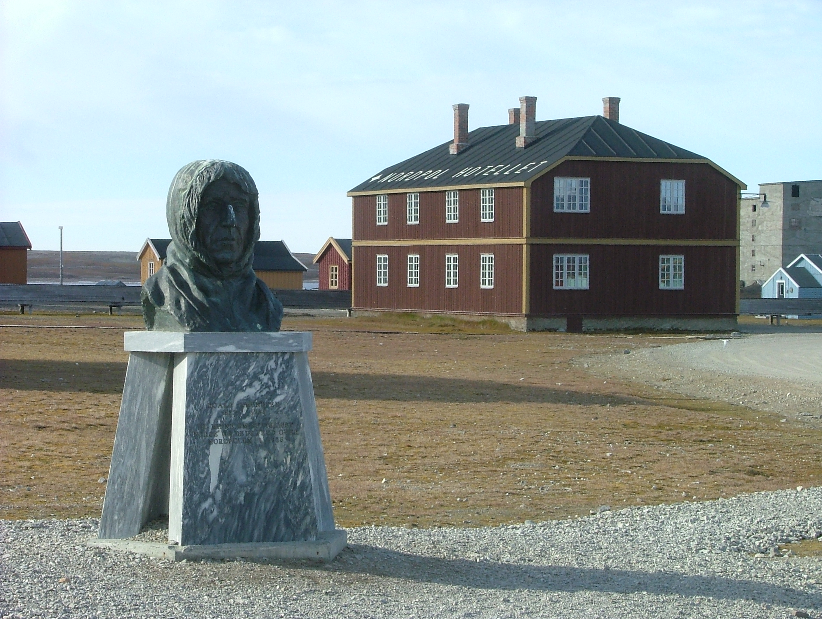 Amundsen monument, with Ny Alesund's North Pole Hotel in the background.